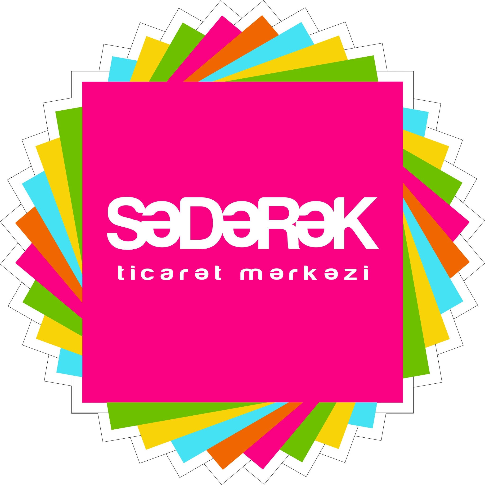 Sadaraklogotip